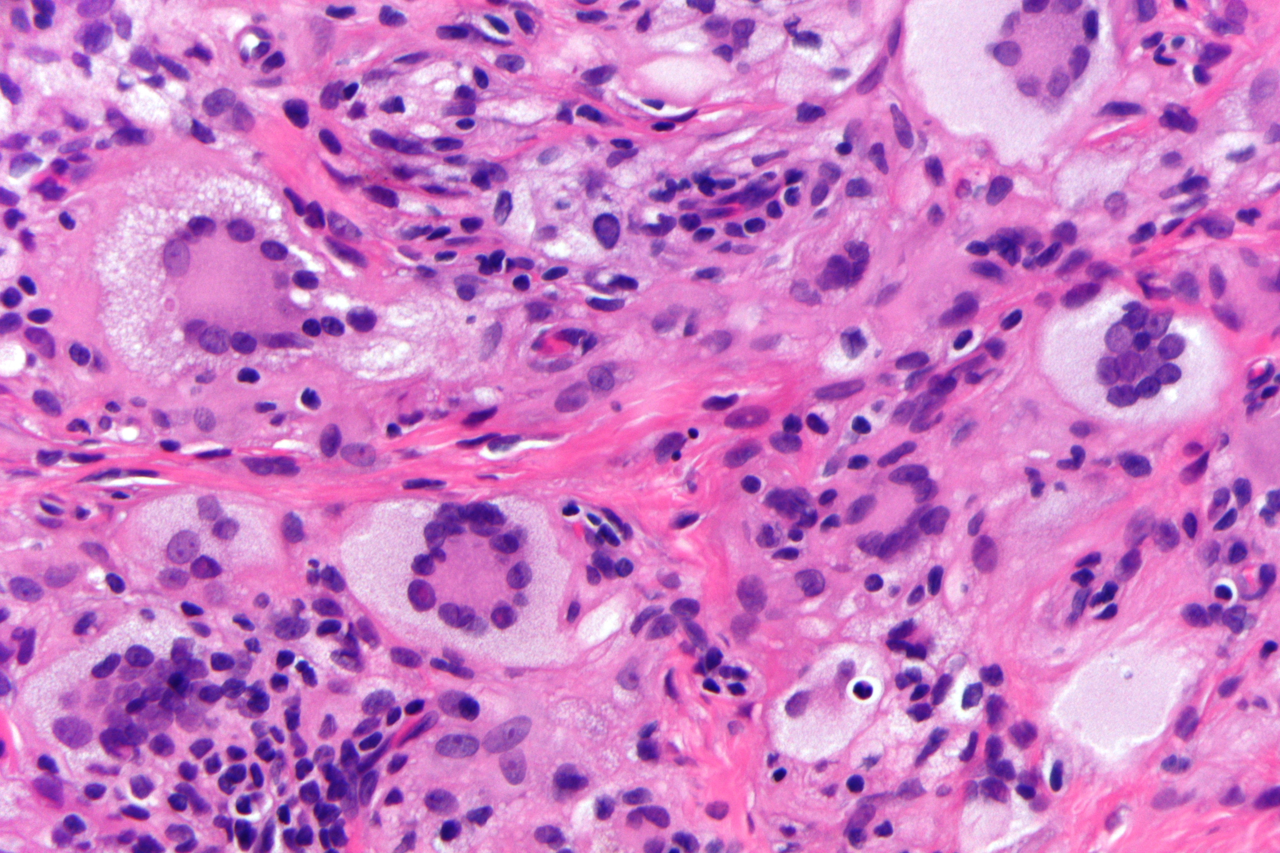 Very high magnification micrograph of a juvenile xanthogranuloma. H&E stain. The images show the distinctive touton giant cells. Related images Intermed. mag. High mag. Very high mag.